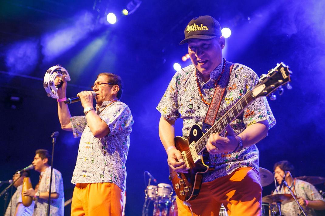 Los Mirlos in Europa.